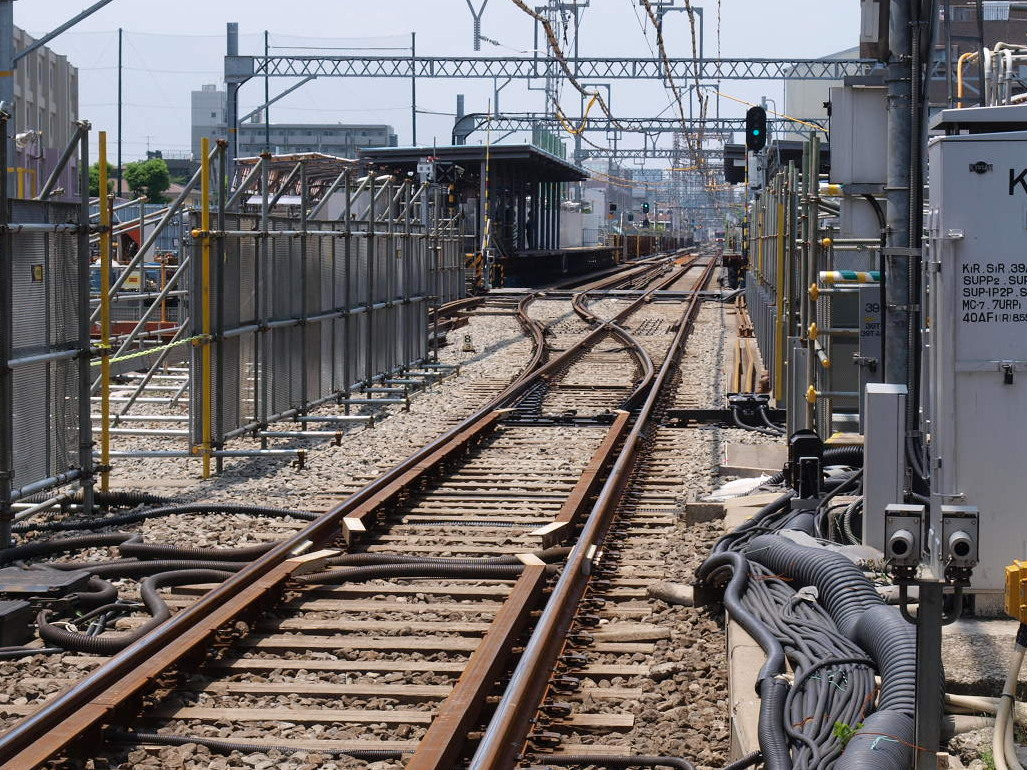 Sangyo Doro station